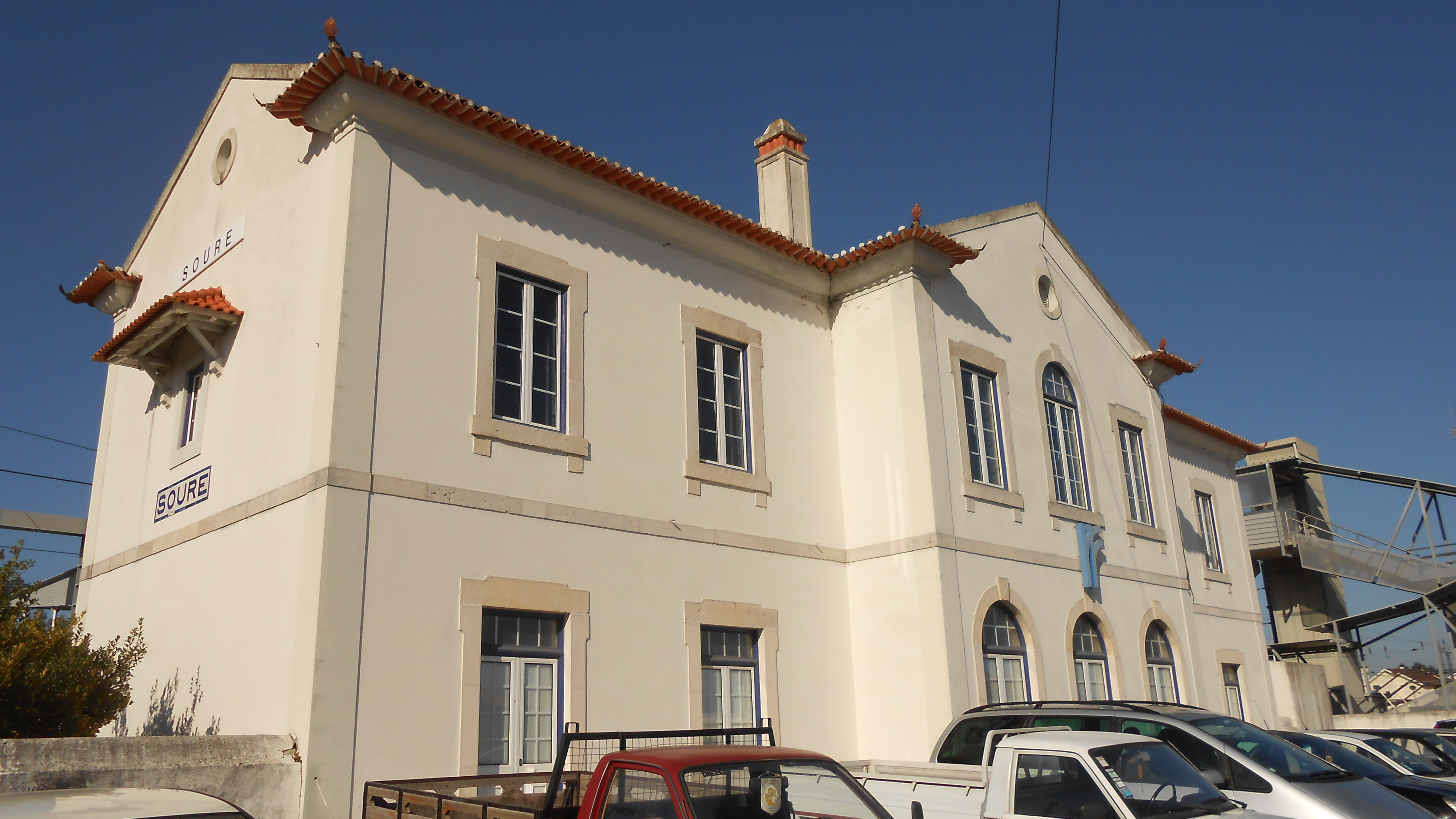 The Soure train station, nowerdays working as a halt only.